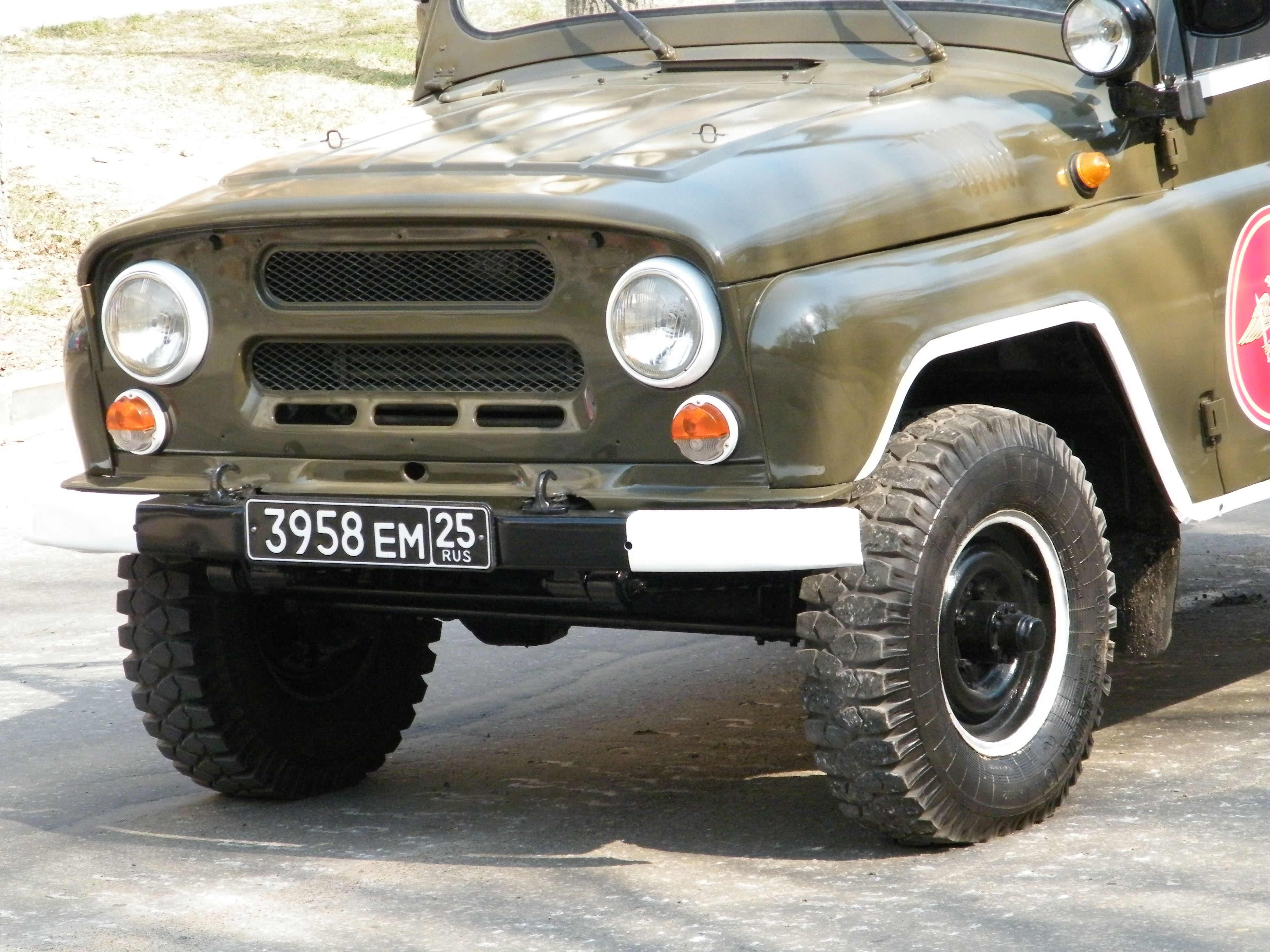 UAZ-3151